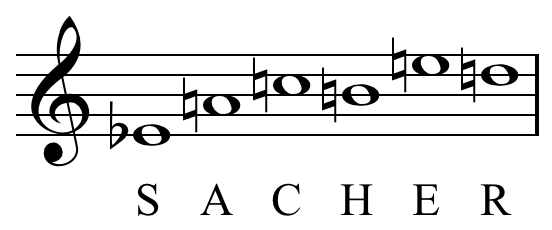 Sacher hexachord: E♭ (Es) A C B (H) E D (Re). Created by Hyacinth (talk) in Sibelius 5.